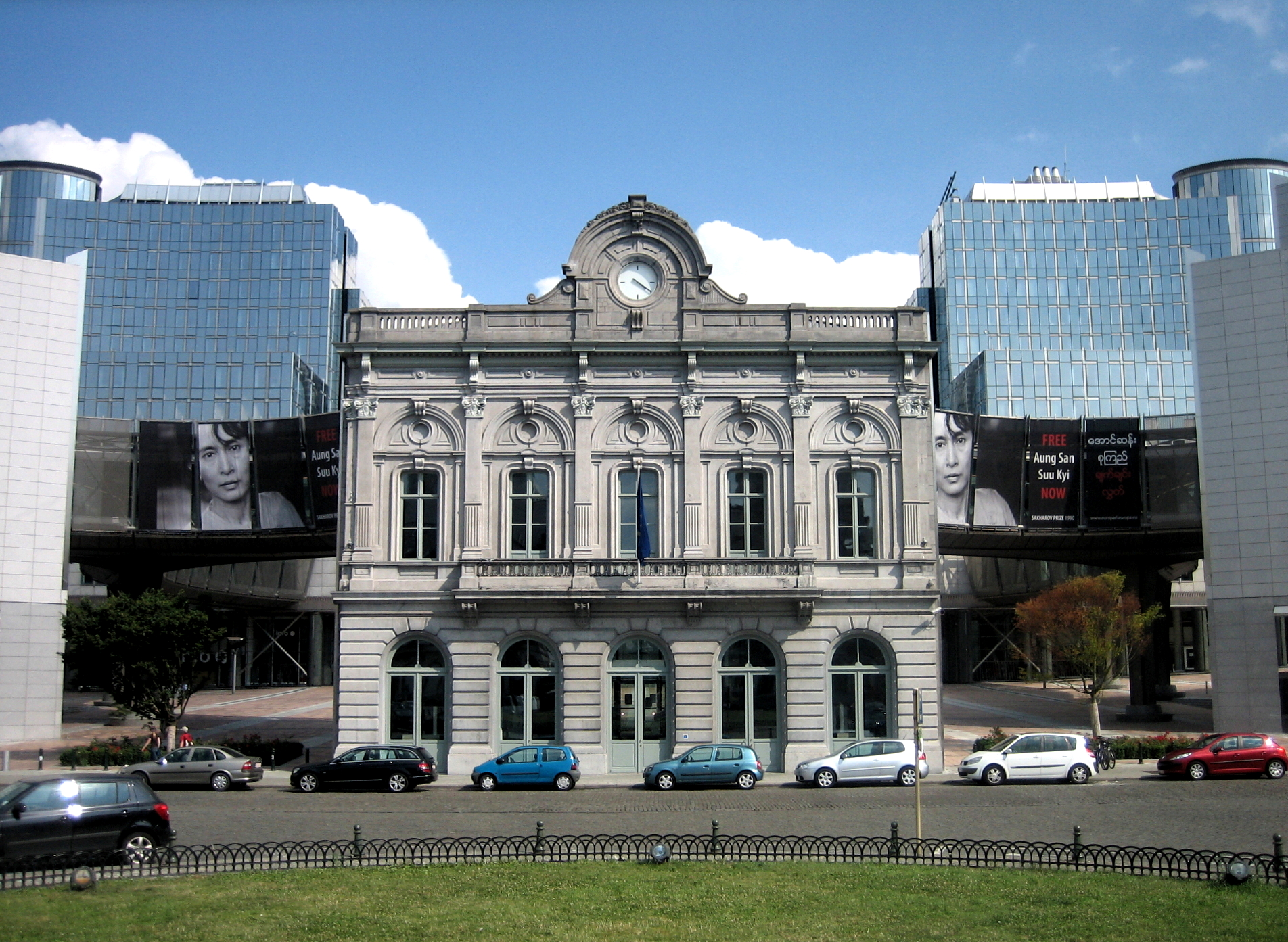 Place du Luxembourg, European Quarter of Brussels (Belgium). View of the European Parliament (western side): former train station building.